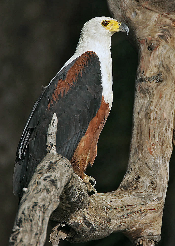 Image taken in the River Gambia National Park, The Gambia.